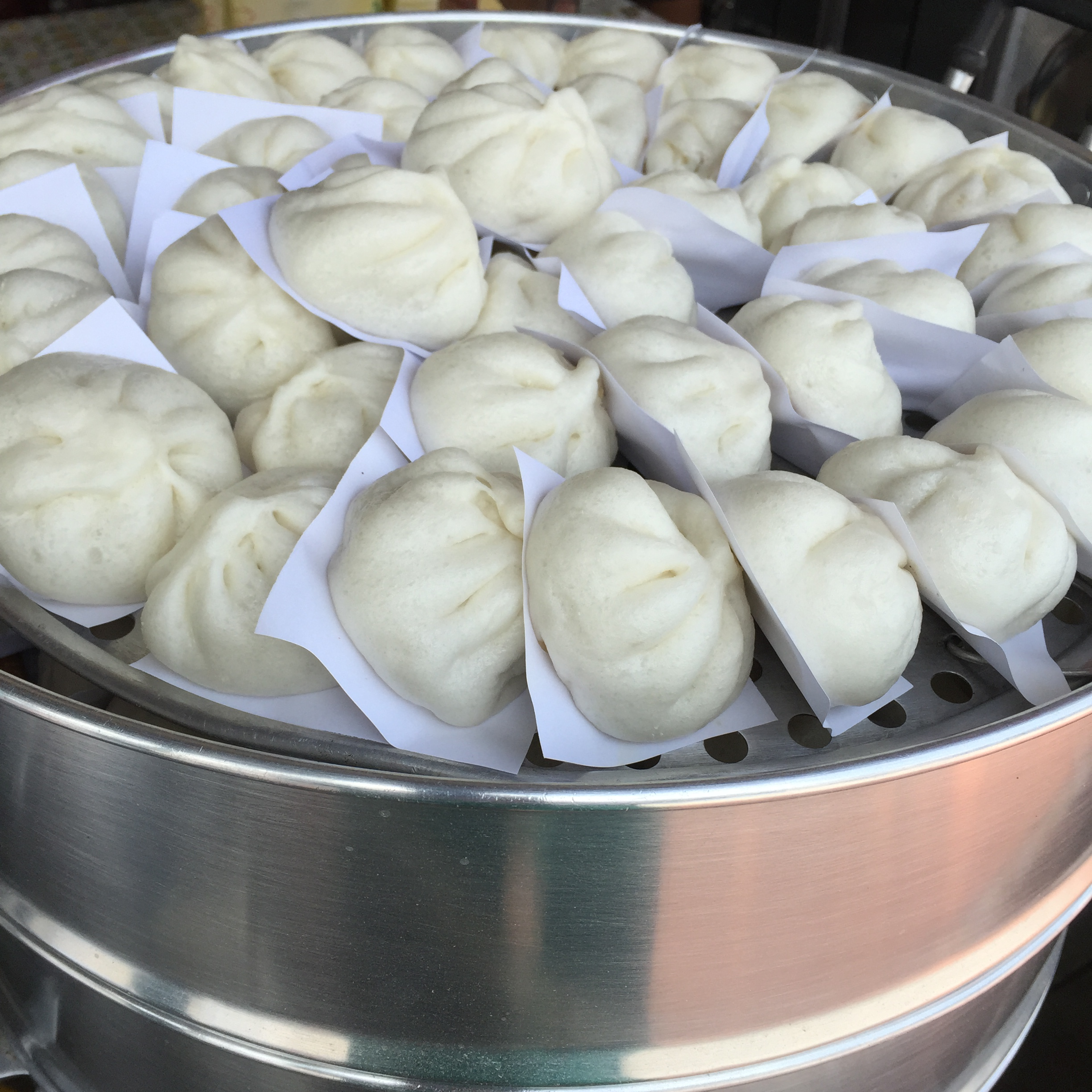 Mamu, Kra Buri District, Ranong 85110, Thailand